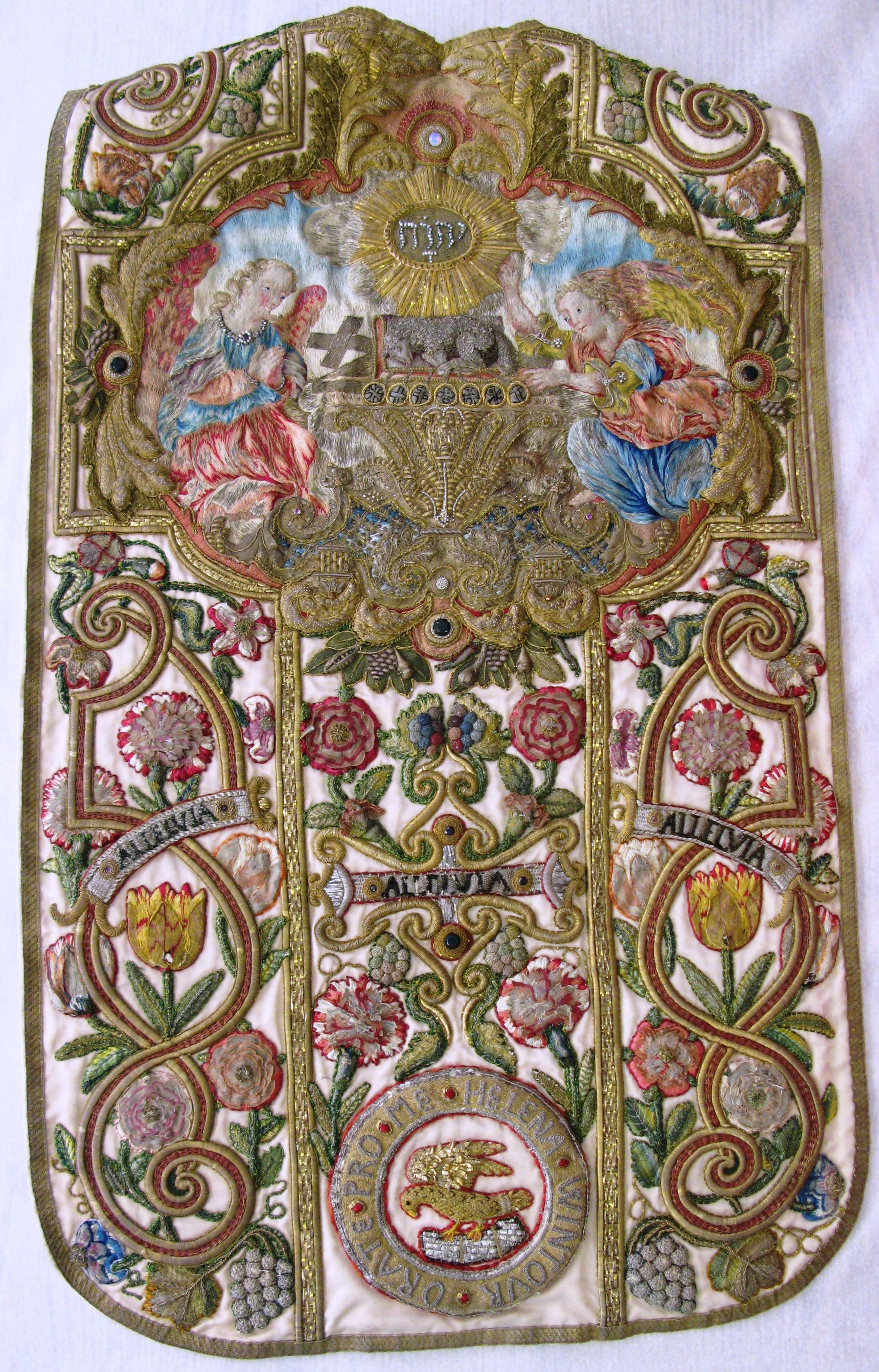 A white vestment containing symbolic flowers and birds, and IHS symbol on the back. Made in the latter part of Helena's life, and currently part of the Stonyhurst Collections.